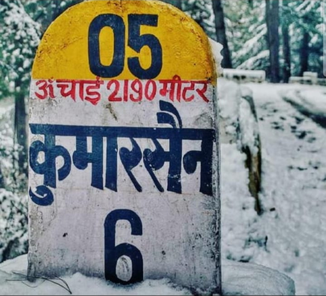 Milestone near NH-5